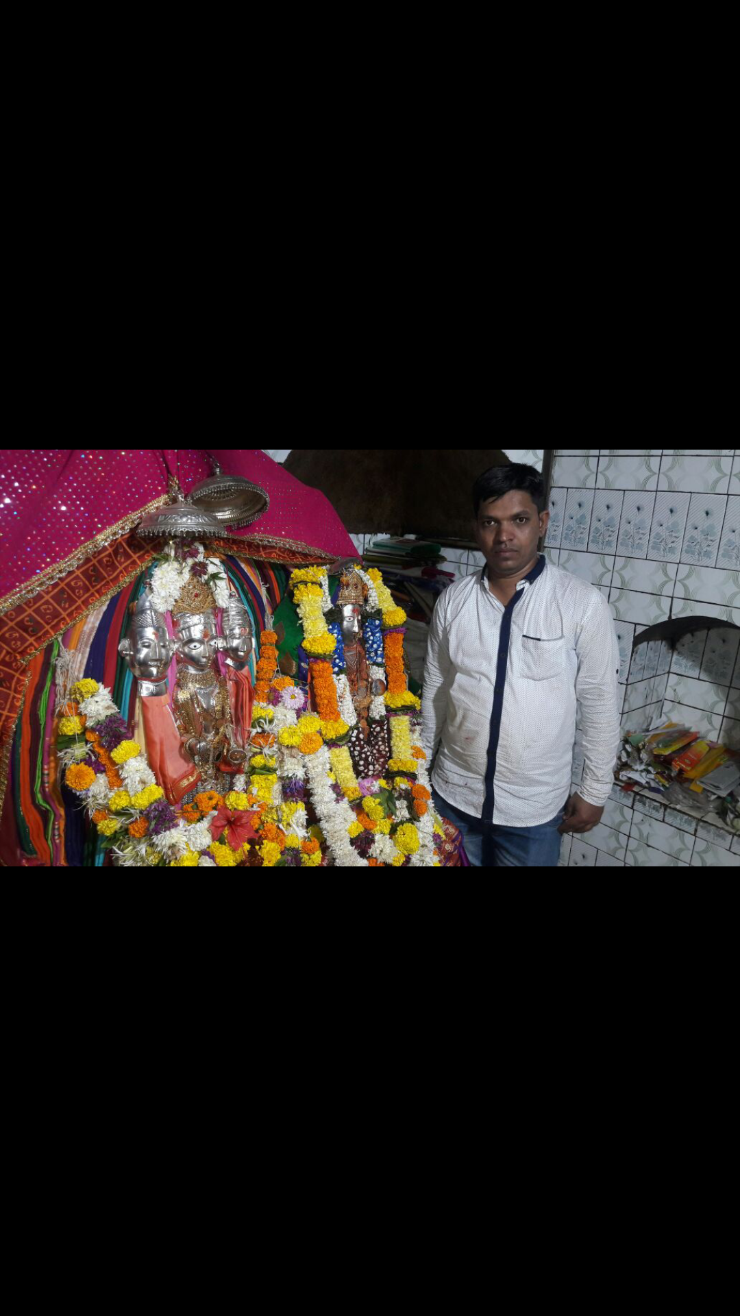 Aryadurga devi - Navadurga devi, devihasol..